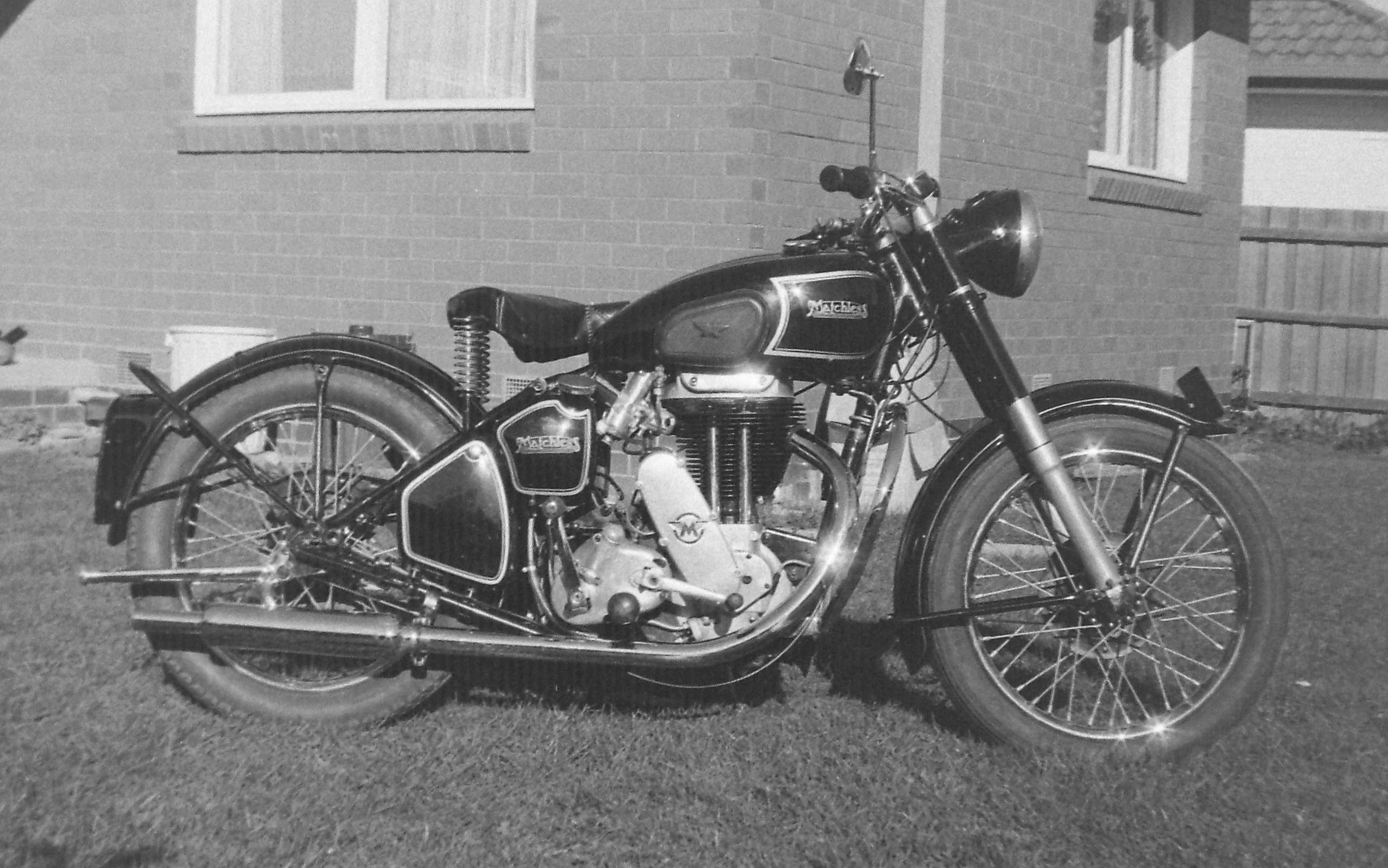 1950 Matchless G80 500cc motorcycle. Bogner baked enamel paintwork. Photogtraphed in Melbourne circa 1976 upon completion of restoration.